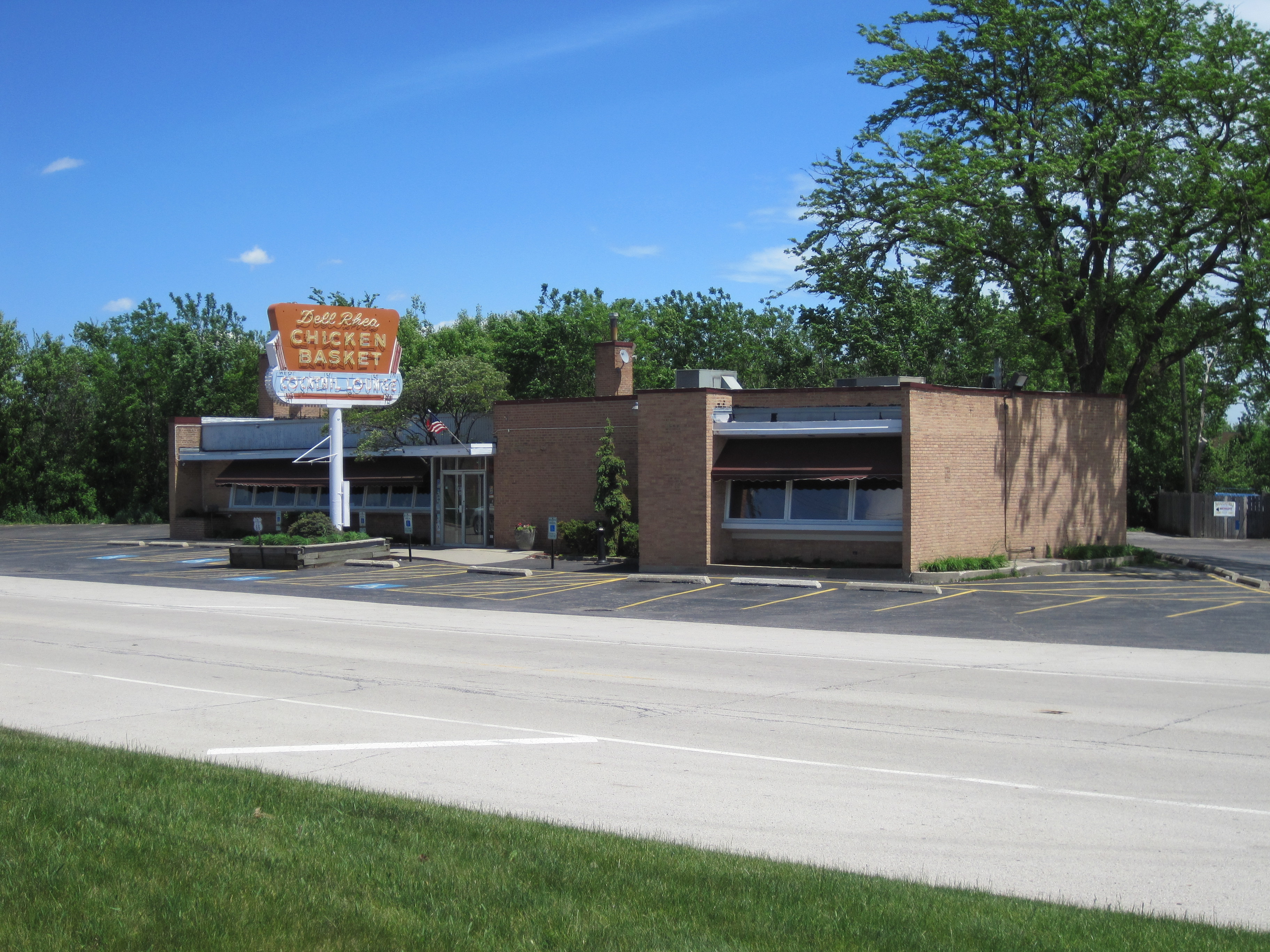 Dell Rhea's Chicken Basket in Willowbrook (1946). It was a popular lunch stop along Route 66. The story goes that two women entered a gas station in 1938, offering to trade their recipe for fried chicken in exchange for a promise to use their chickens to make it. The Chicken Basket originally operated out of this gas station at a lunch counter, but became popular enough to warrant a new building in 1946. During winters, owner Irv Kolarik would flood the roof of the restaurant and hire local youths to skate on top of it.